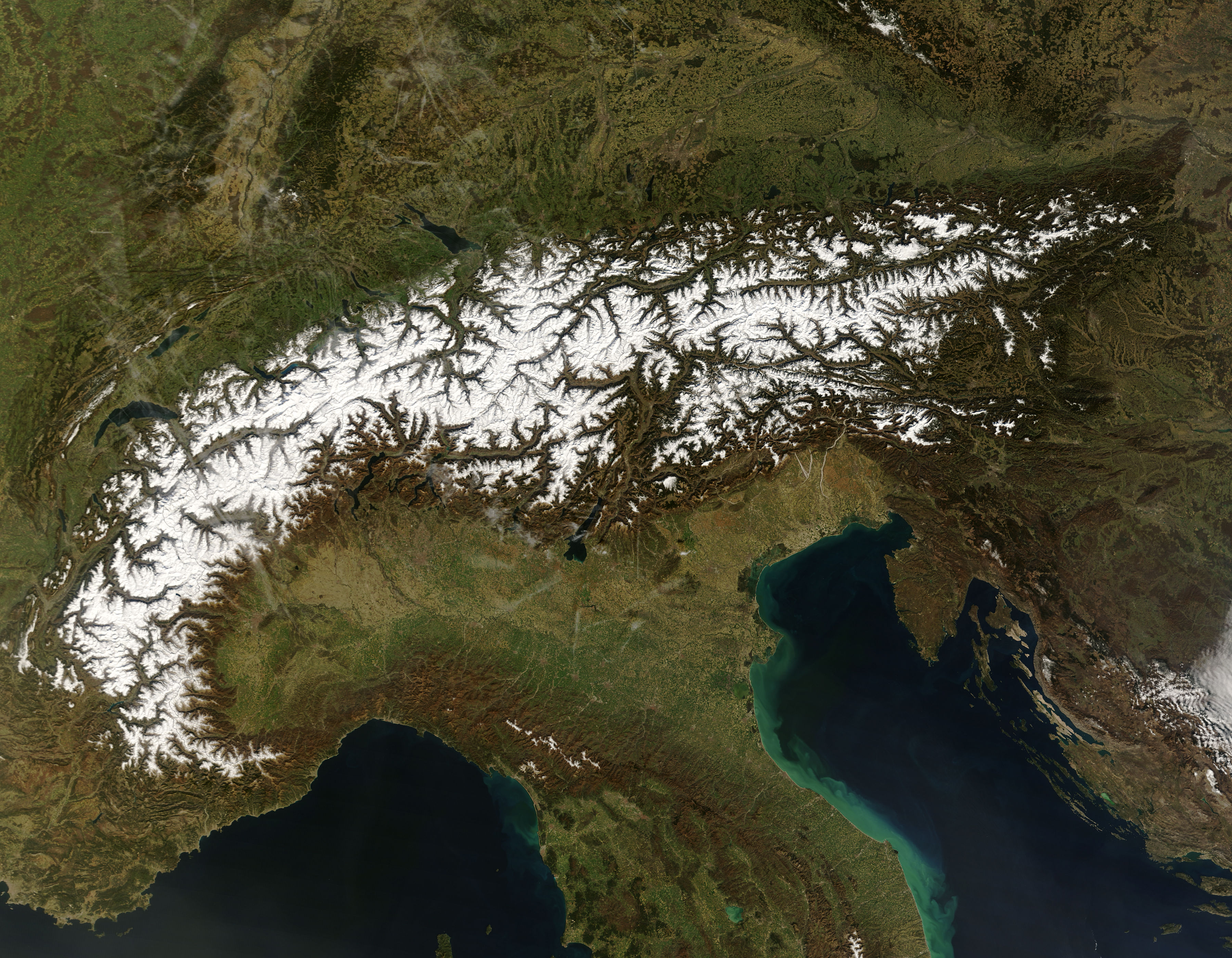 Satellite view of the Alps (1 pixel = 250m). Image courtesy of MODIS Rapid Response Project at NASA/GSFC